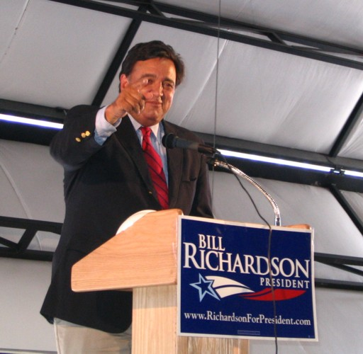 Bill Richardson campaigning in Elko, Nevada, 13 July 2007. Taken by faustus37. Public domain.